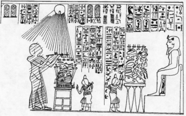 Men and Bek, sculptors during the reigns of Amenhotep III and Akhenaten